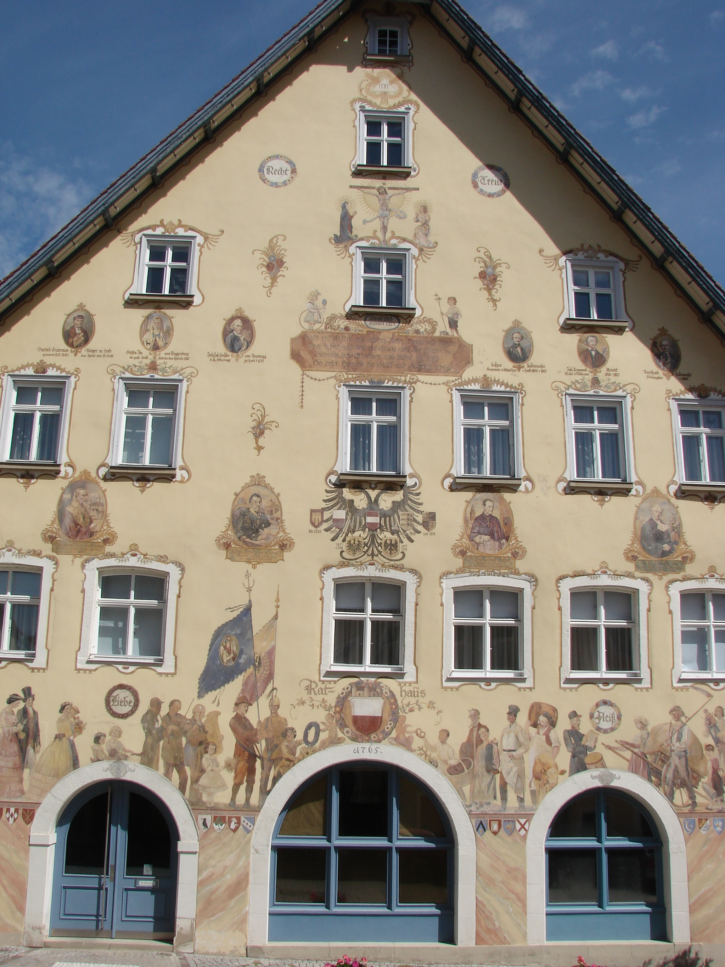 Horb am Neckar, facade of town hall